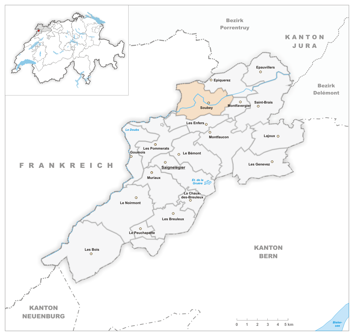 Municipality Soubey